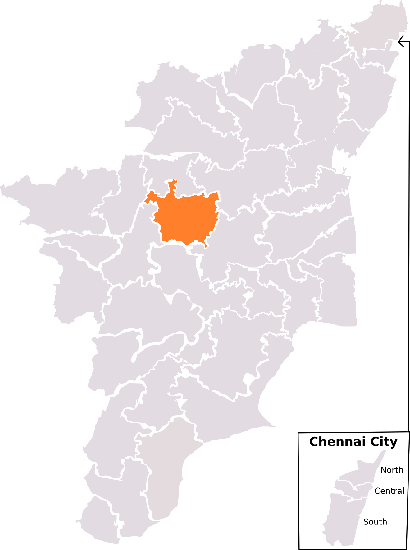 Lok Sabha Election map labeling each constituency for individual pages for Tamil Nadu after delimitation starting 2009 election. Map is based on ECI drawn map from